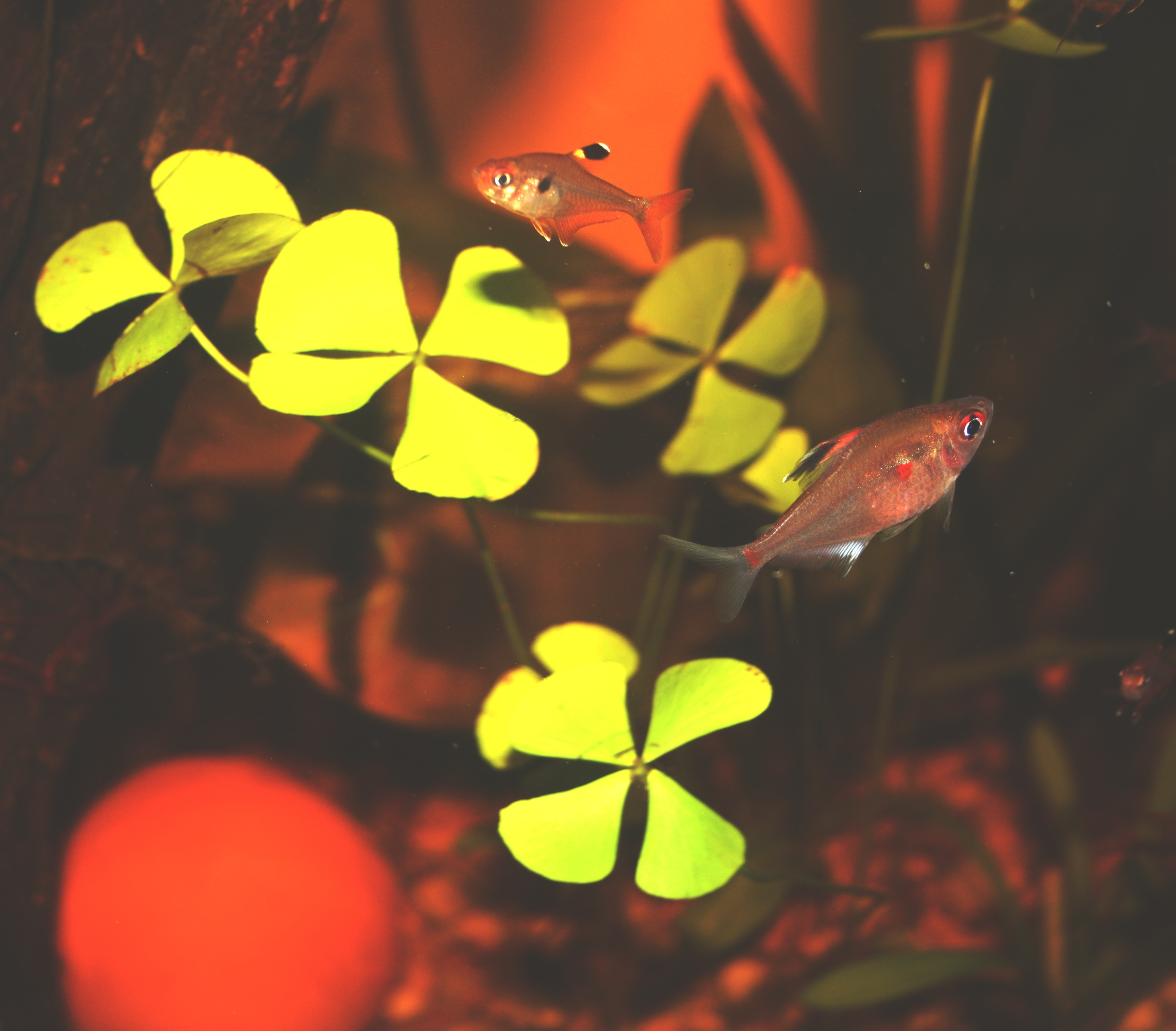 Marsilea batardae